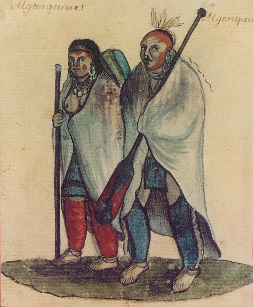 Algonquin Couple, an 18th-century watercolor by an unknown artist. Courtesy of the City of Montreal Records Management & Archives, Montreal, Canada.